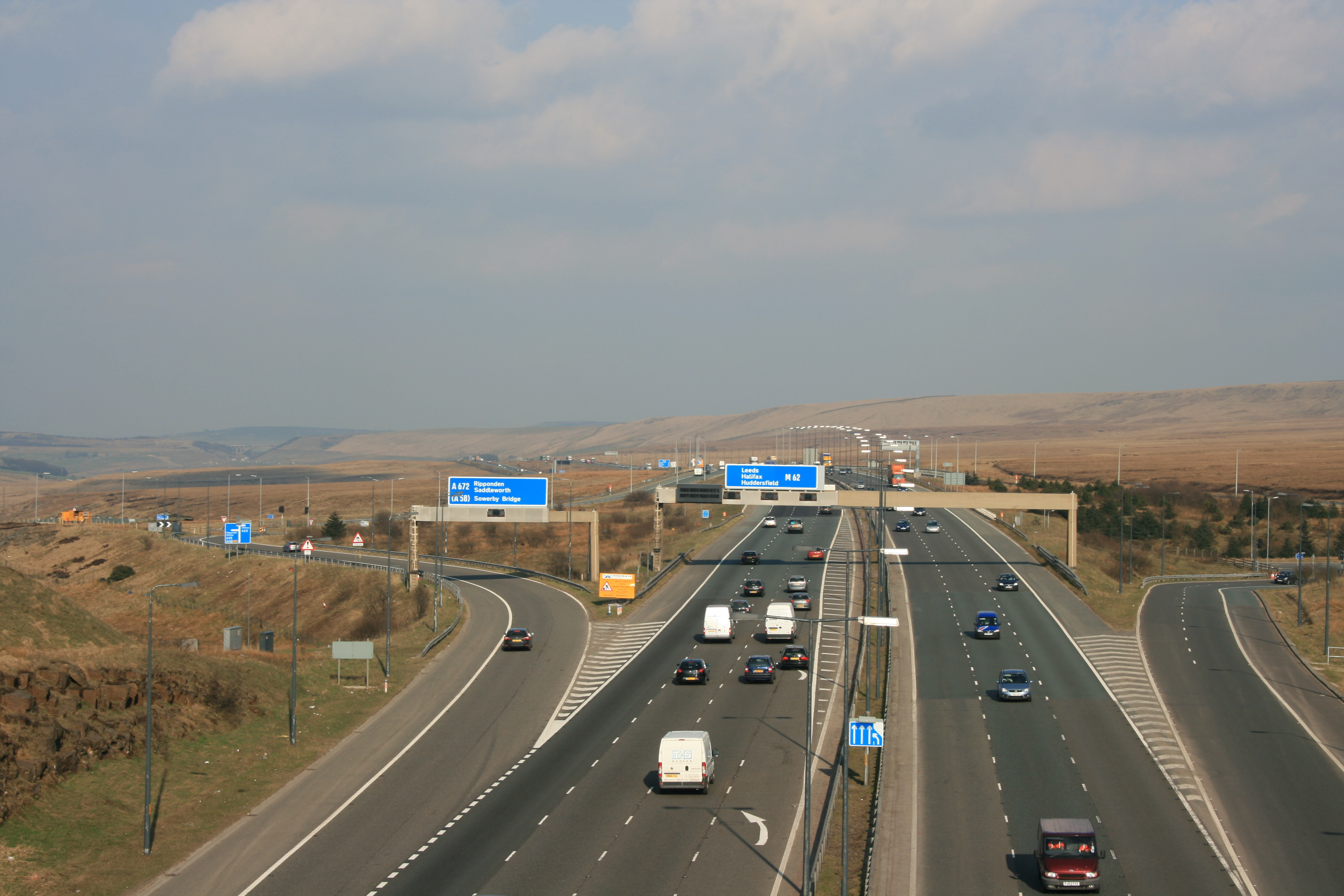 View looking east at M62_motorway J22 towards Scammonden Bridge.